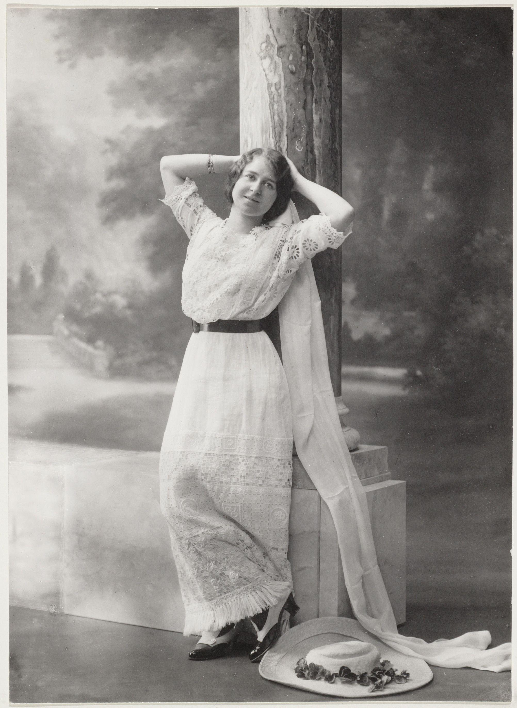 Photograph of Dutch actress Emma Morel by Jacob Merkelbach